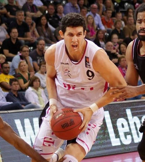 Picture of professional players taken during a game